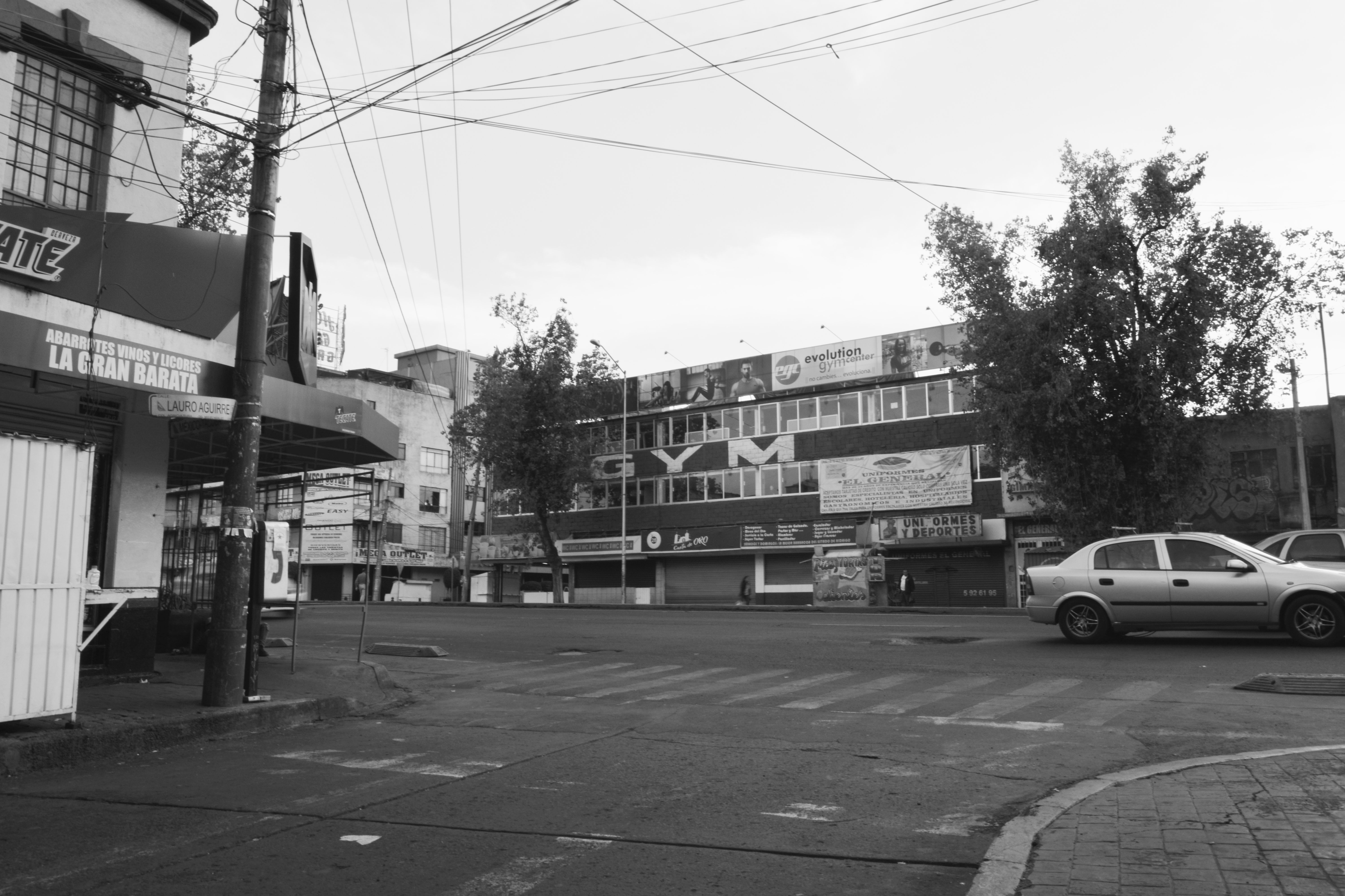 Alfonso Cuaron's "Roma" filming locations in Mexico City. BW version.